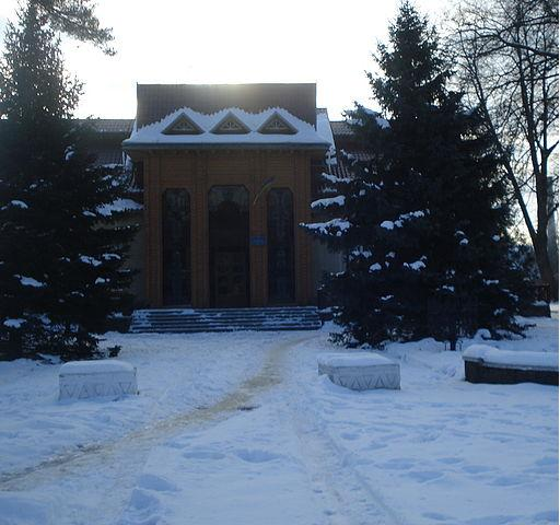 Vygoda government